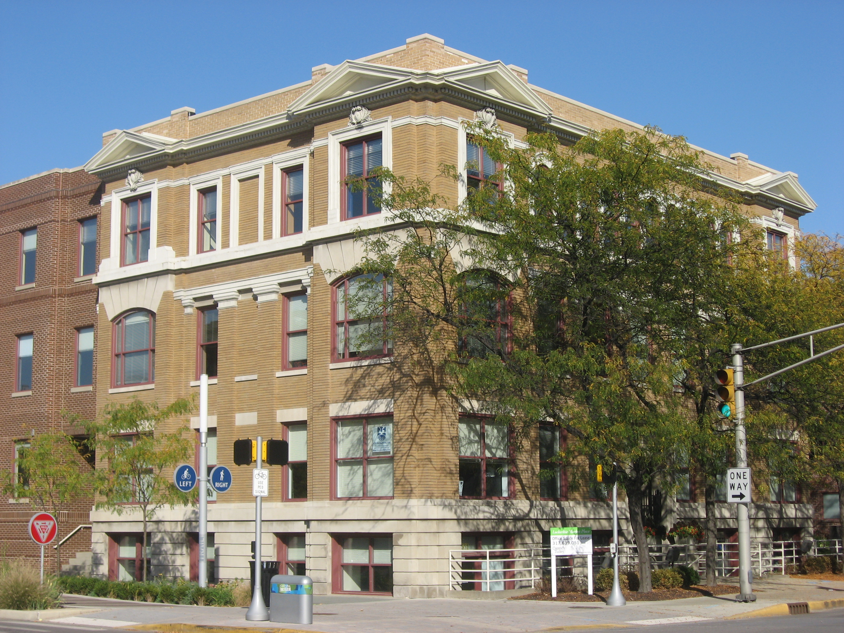 Front of The Vienna, located at 306 E. New York Street in Indianapolis, Indiana, United States. Built in 1908, it is listed on the National Register of Historic Places.